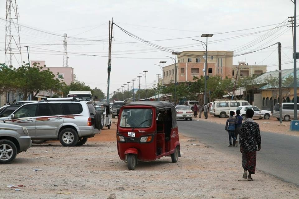 Adado city Galmudug Somalia